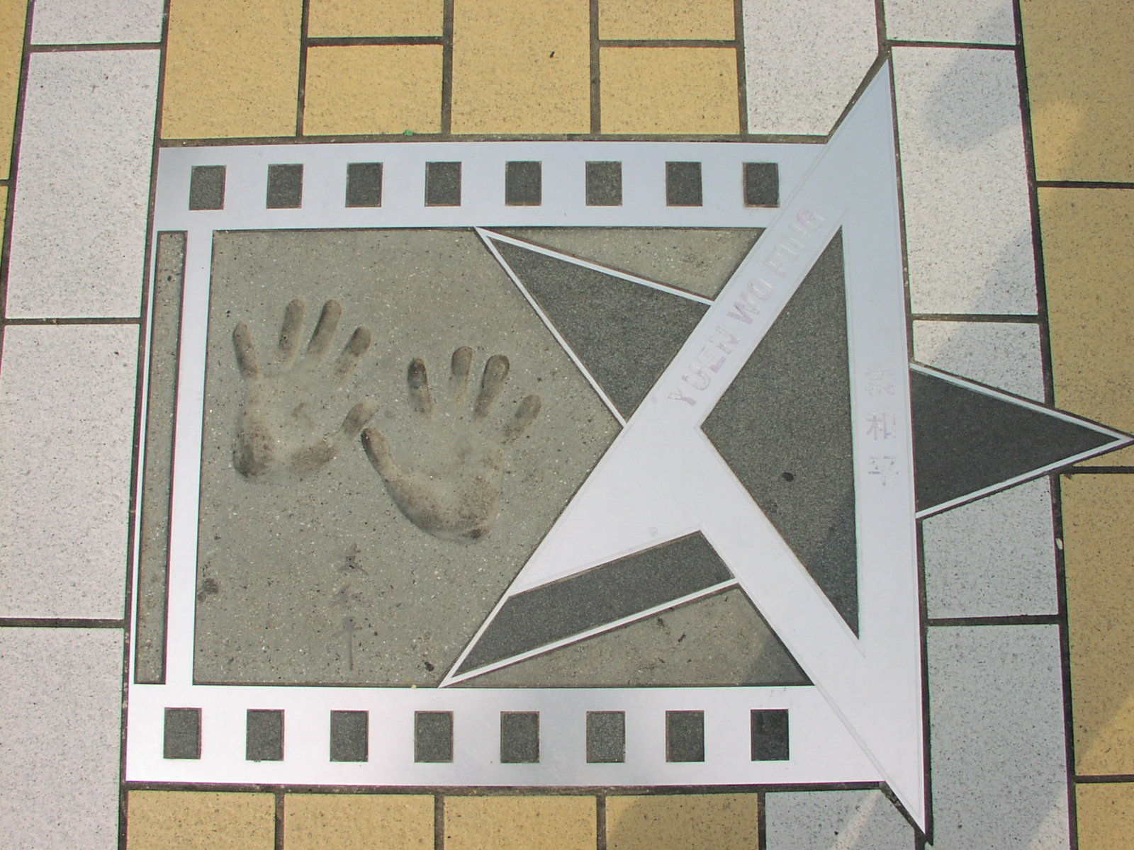 Avenue of Stars, Hong Kong